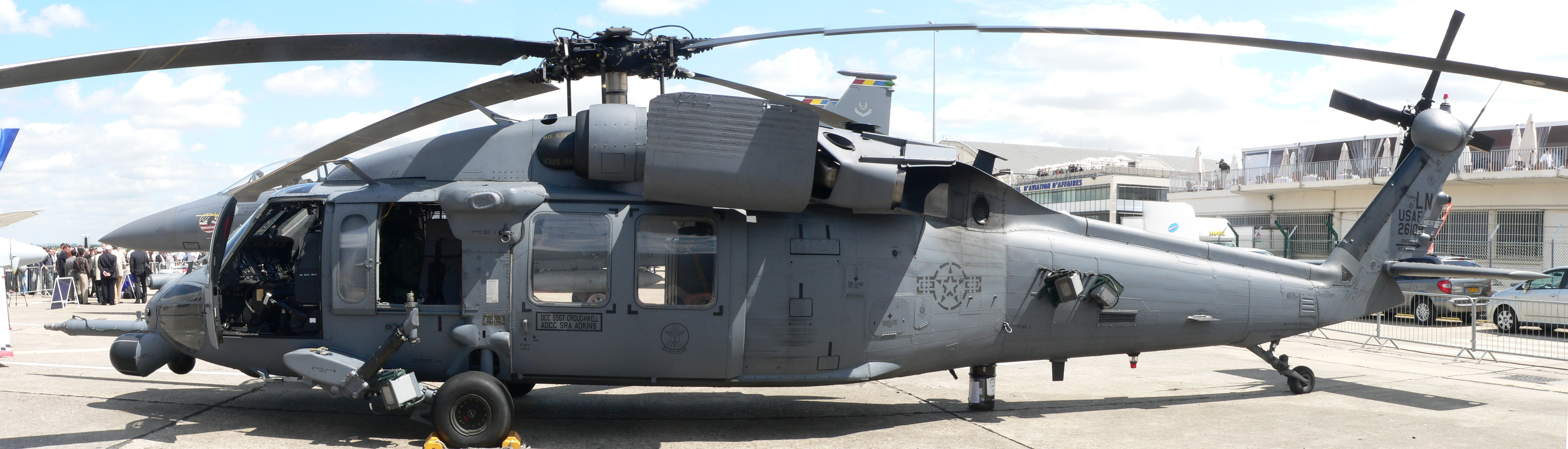 A Sikorsky HH-60 Markings seem to identify: Unknown USAF Search and Rescue Squadron. USAF is clearly printed on the tail. Copyright © 2007 David Monniaux (Update: 22 November 2015... The tail markings 88-26109 designate this aircraft belonging to the 56th Rescue Squadron (56 RQS), 48th Fighter Wing (48FW), RAF Lakenheath. The aircraft later crashed on a night training mission to rescue a downed F-16 pilot on 07th January 2014. The cause of the crash was due to a flight of geese impacting the aircraft while flying at low altitude along the coastline 2 miles North West of Blakeney, UK. The airframe was deemed a write-off and all four (4) crew members were fatally wounded. (Updated by Rupert Imhoff).